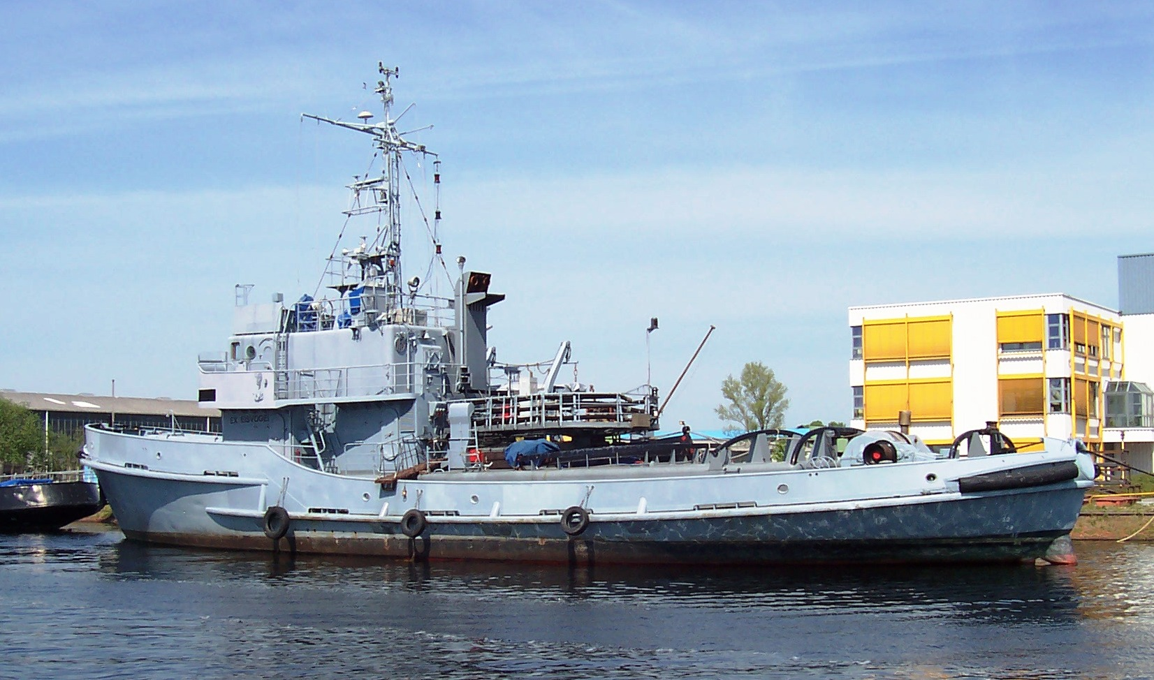 Decommissioned naval icebreaker Eisvogel (A1401), laid up in Wilhelmshaven